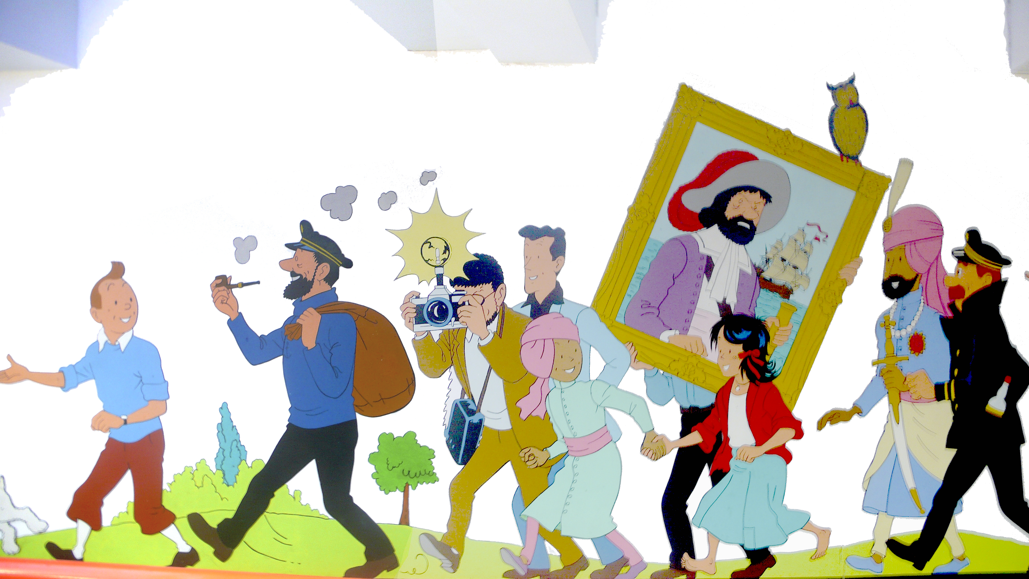 TinTin - Brussels Stockel metro station mural designed by Hergé